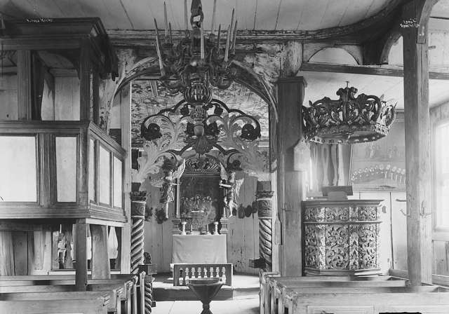 Lom stavkyrkje (Lom stave church, Lom, Oppland, Norway). Picture taken in the periode 1880 - 1890.